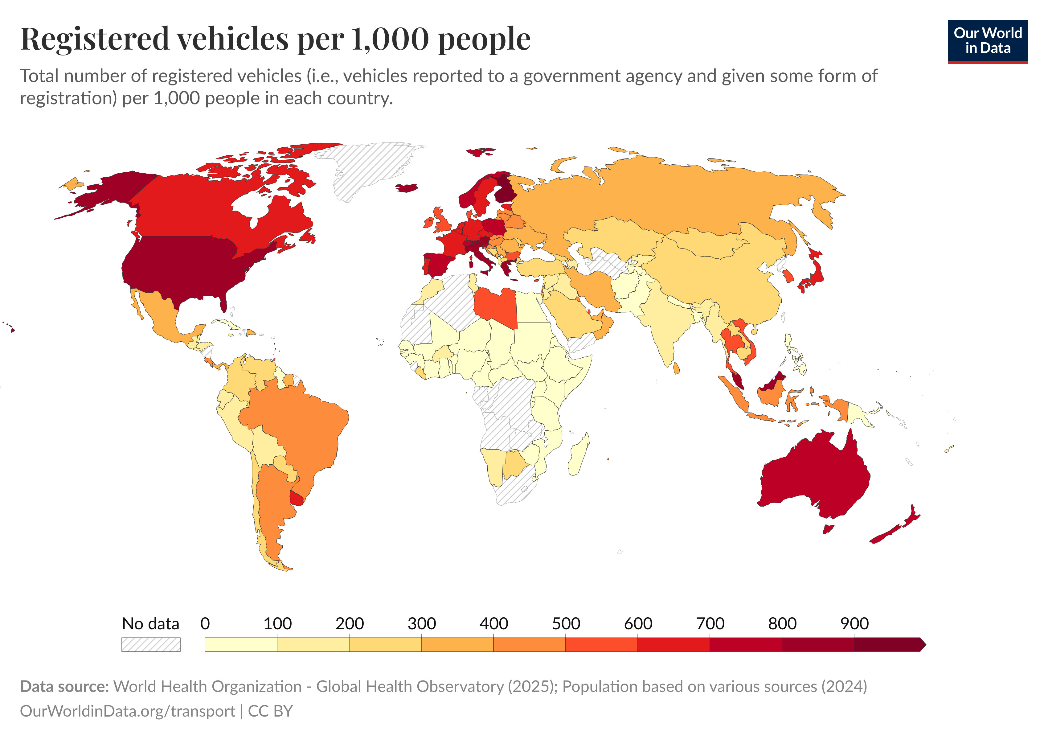 Motor vehicle ownership, per 1000 inhabitants in 2014. Number of road motor vehicles, measured per 1000 people in 2014. Motor vehicle' includes automobiles, SUVs, trucks, vans, buses, commercial vehicles and freight motor road vehicles. This data excludes motorcycles and other two-wheelers.